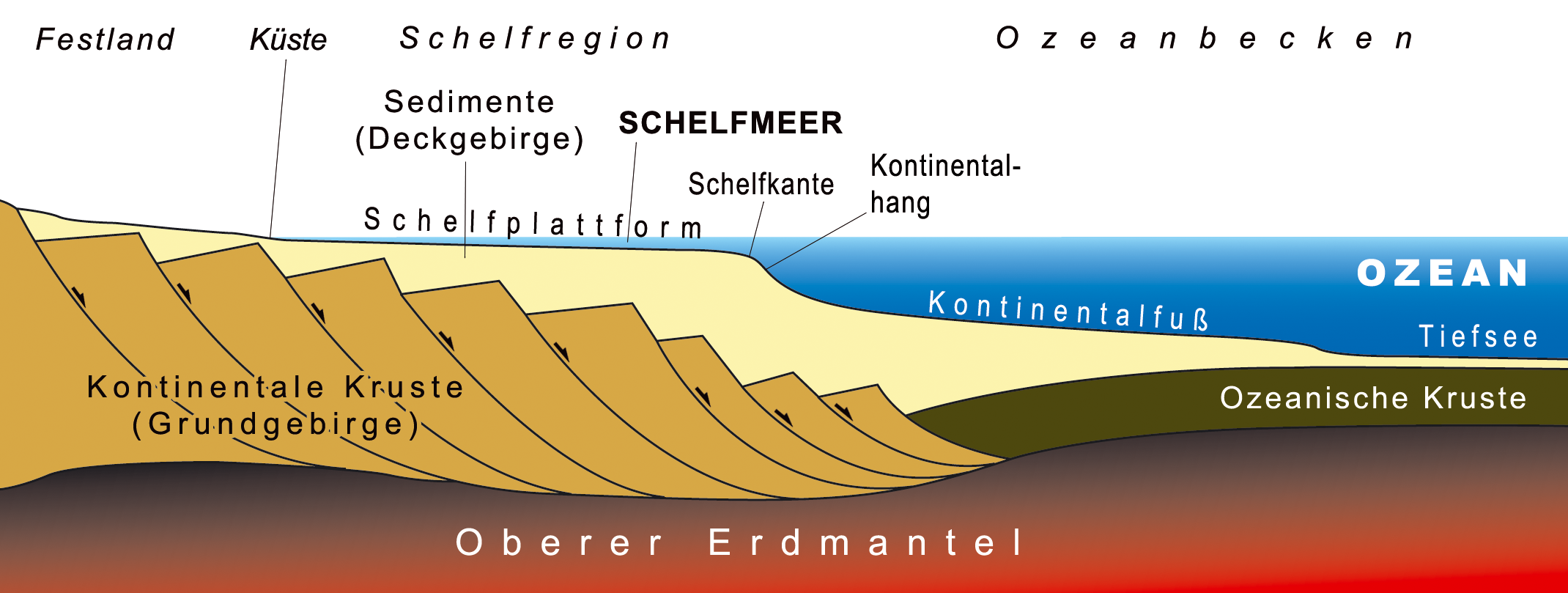 Transect through a passive continental margin (exaggerated)